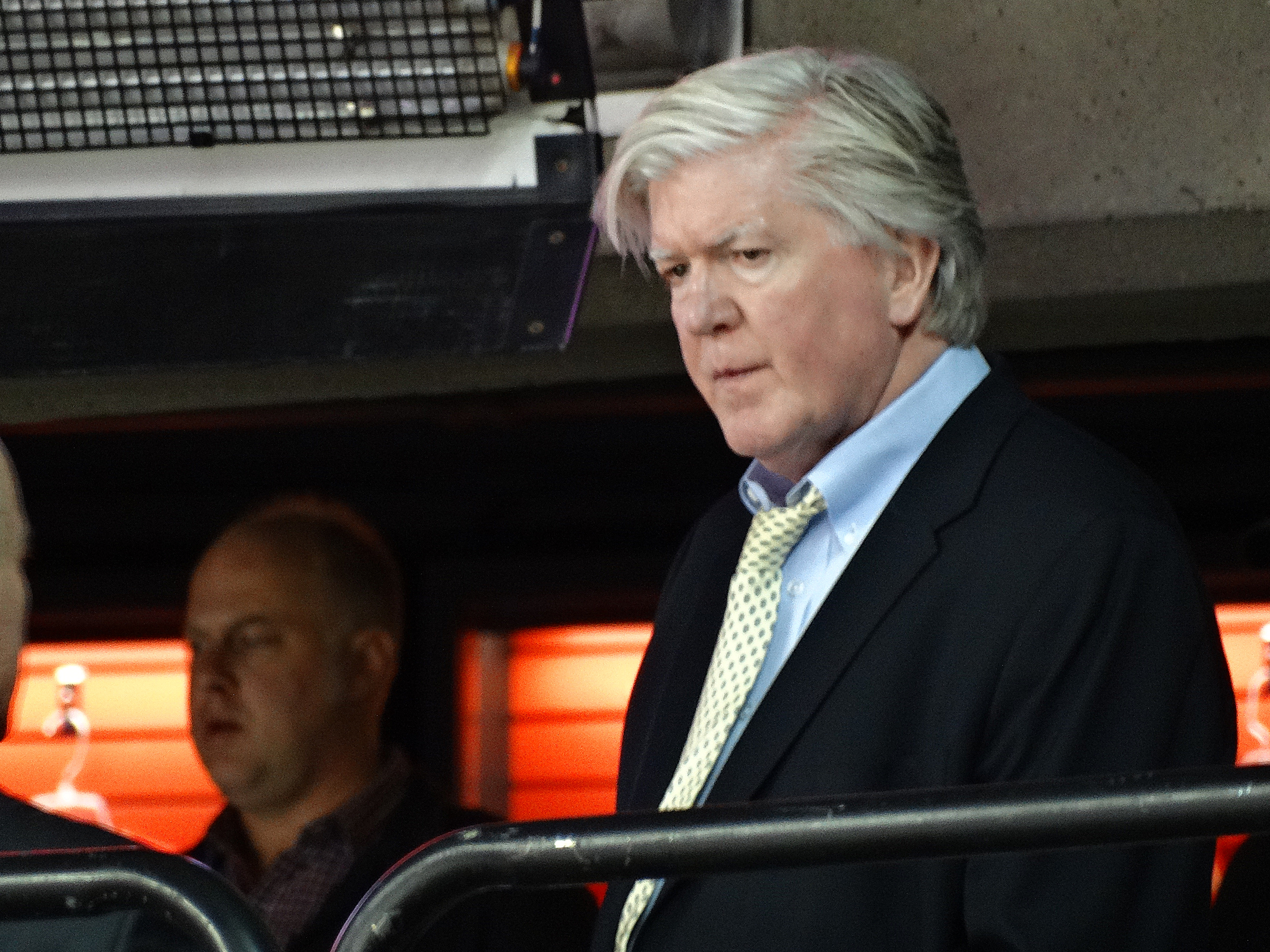 Brian Burke, American ice hockey manager at the CHL / NHL Top Prospects game